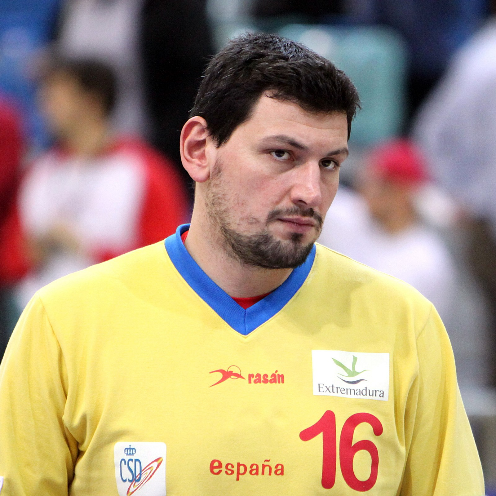 Arpad Šterbik (BM Ciudad Real), Spain national handball team